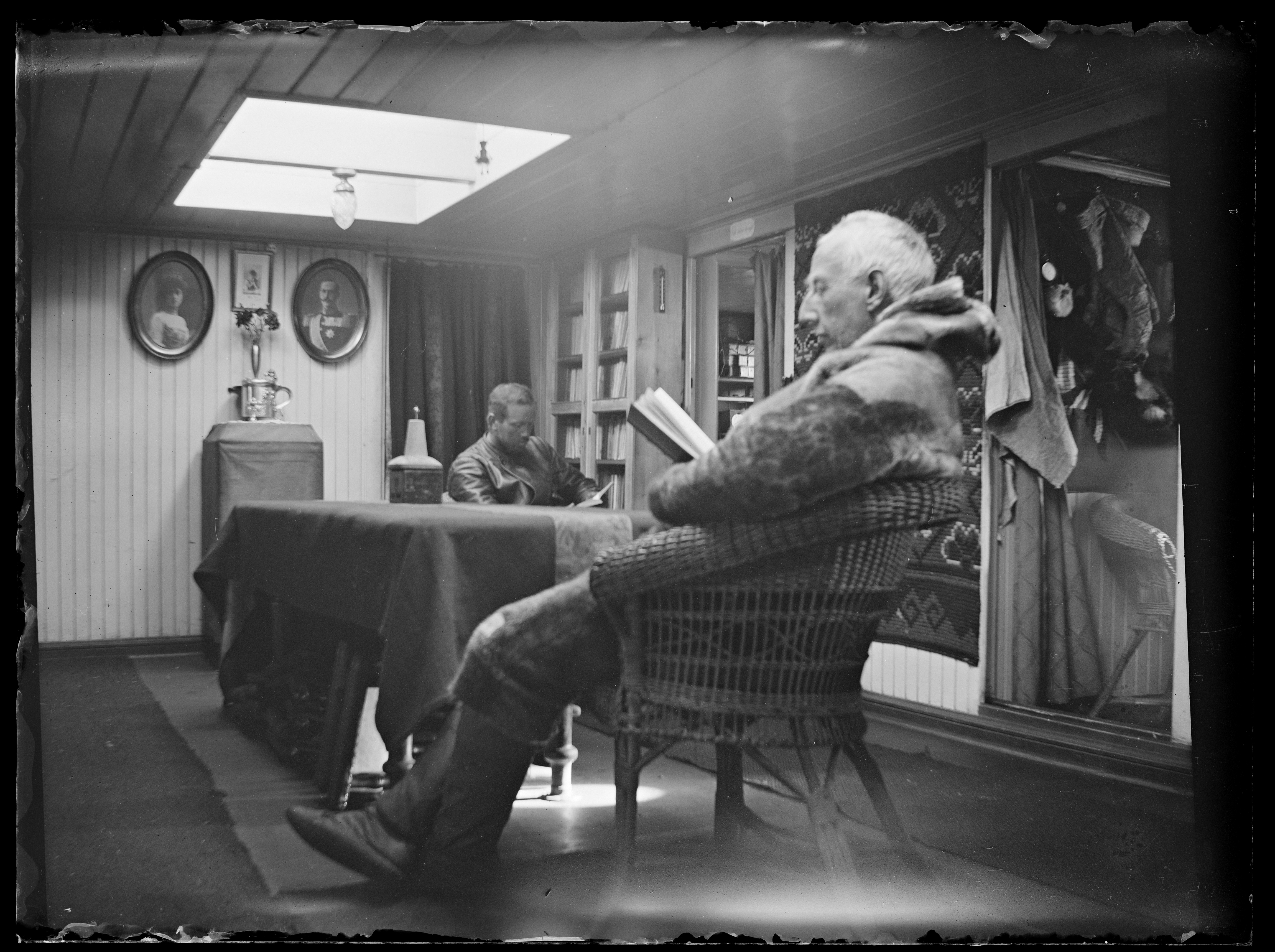 Dato / Date: ca. 1918-1920 Sted / Place: Russland Fotograf / Photographer: ukjent / unknown Digital kopi av original / Digital copy of original: sv/hv negativ, glass Eier / Owner Institution: Nasjonalbiblioteket / National Library of Norway Lenke / Link: Bildesignatur / Image Number: bldsa_NPRA2003